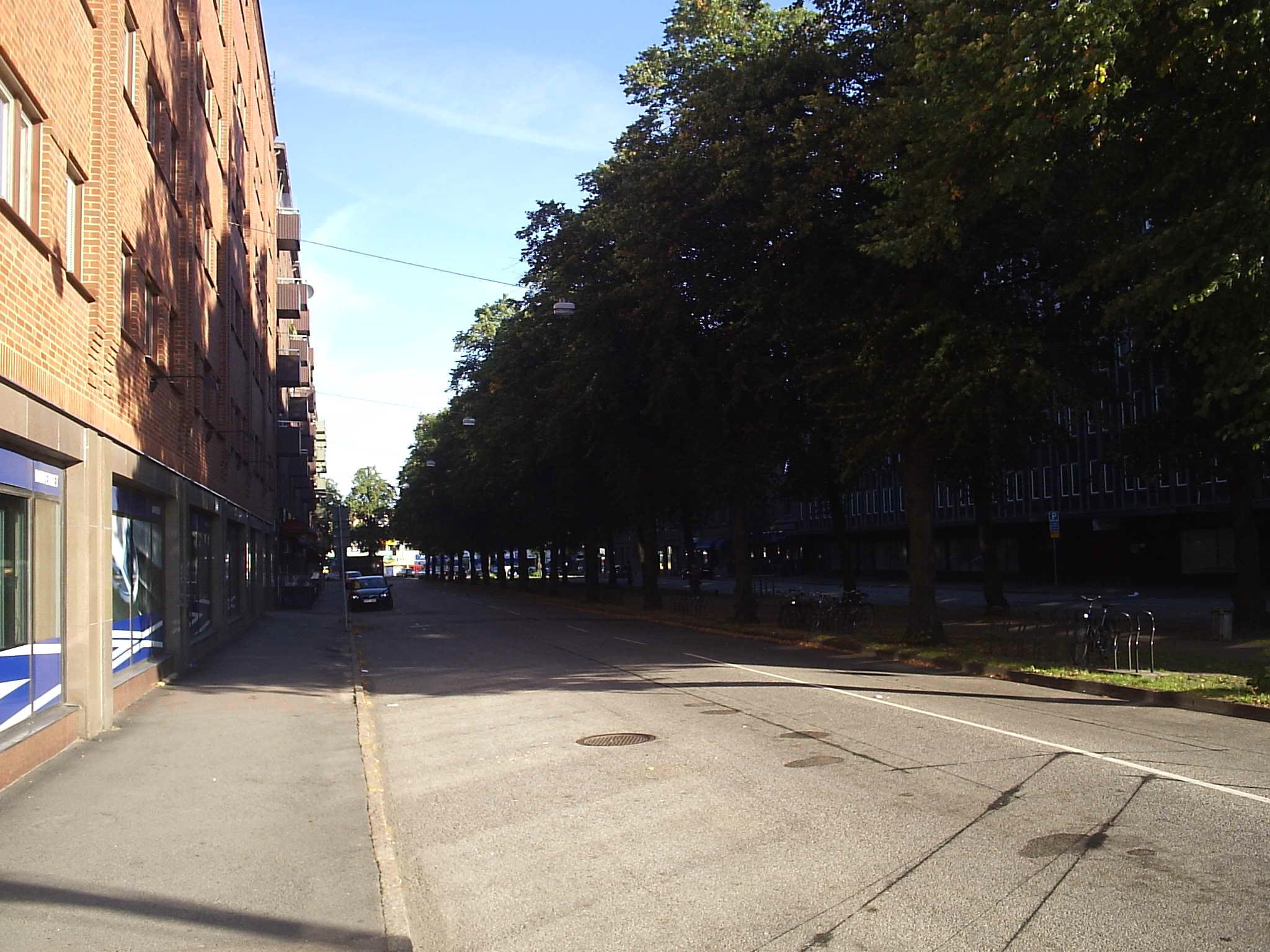 Photo by Harri Blomberg.